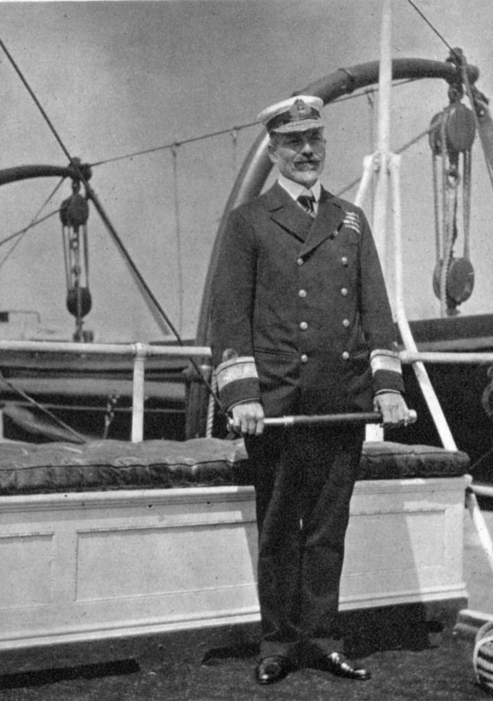 Image captioned Commodore Sir B. Milne. Archibald Berkeley Milne, 2nd Baronet, served on and later commanded the royal Yacht. Despite the caption, the Image shows an officer wearing insignia of a Rear Admiral, which Milne became in 1904. In 1906 he was transferred elsewhere.